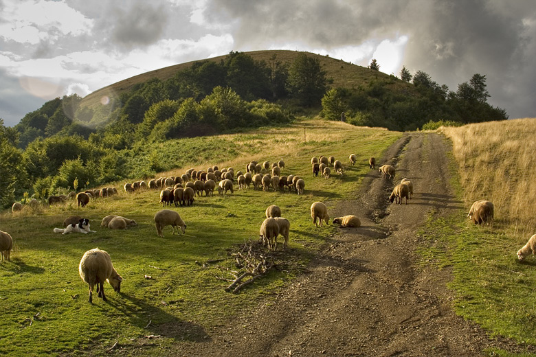 Sheep in Stara Planina